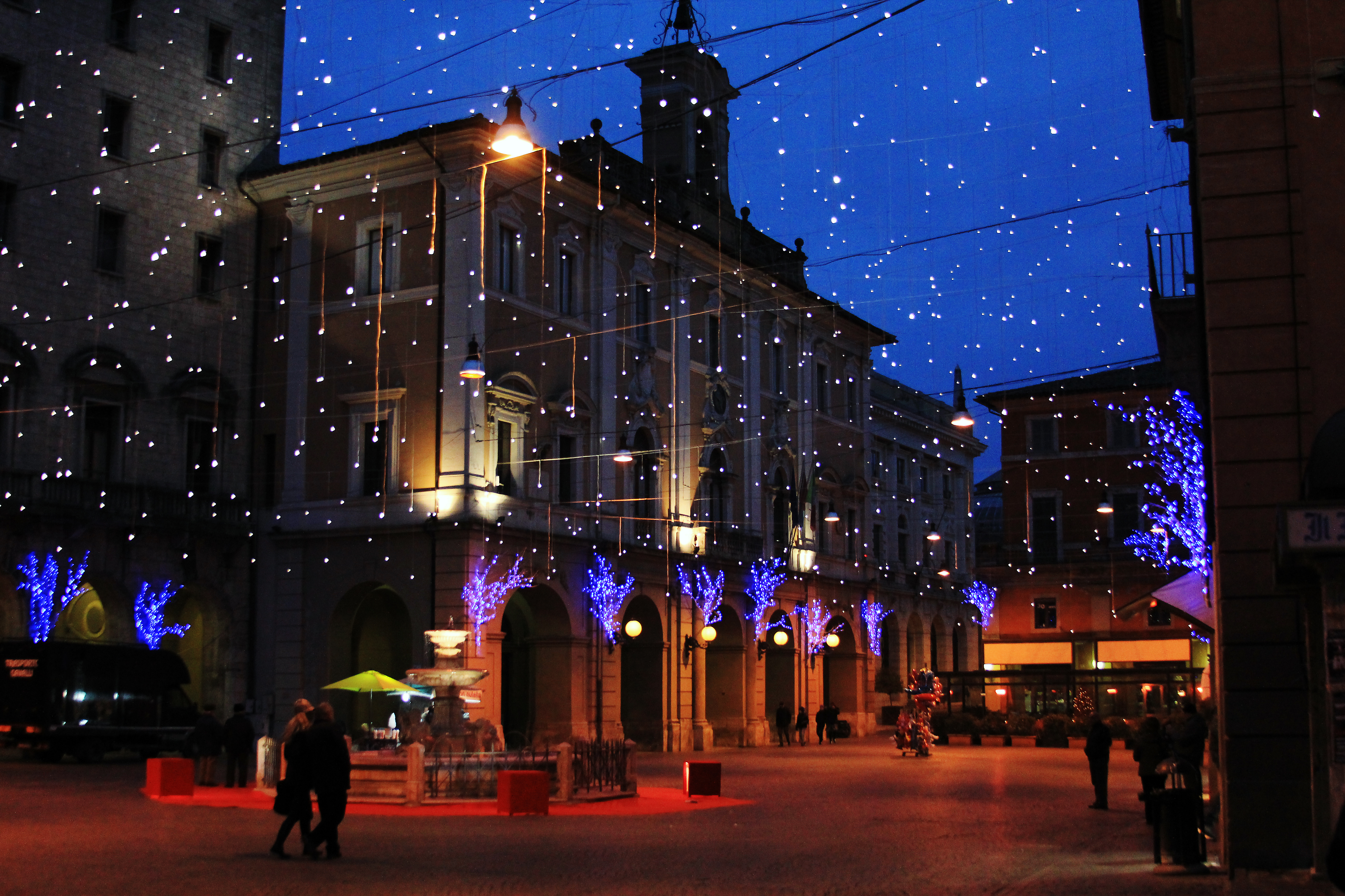 Vittorio Emanuele II square with Christmas lights - Rieti (Lazio, Italy)